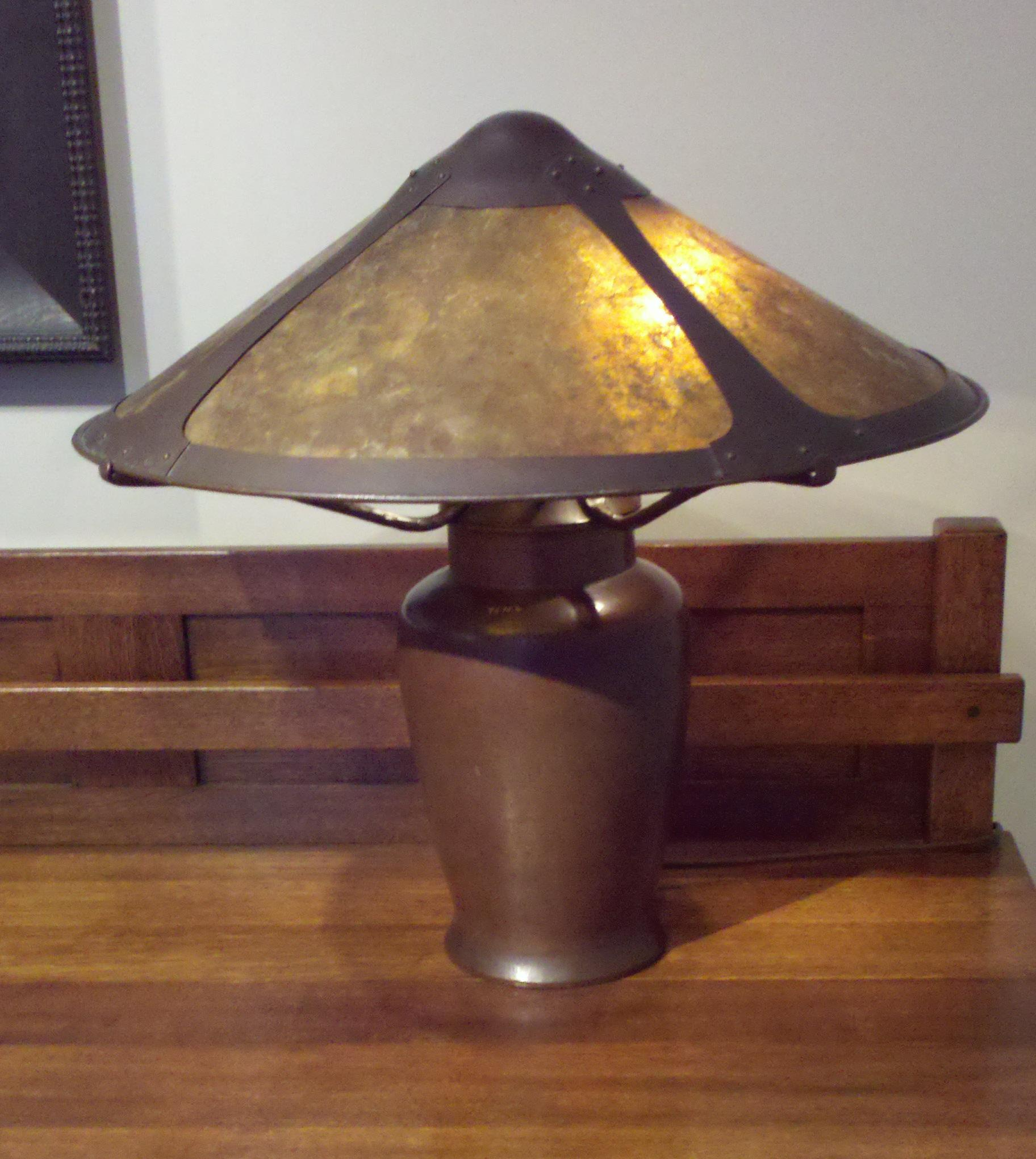 A photo of a copper lamp made by Dirk Van Erp, on display at the De Young Museum in San Francisco, California